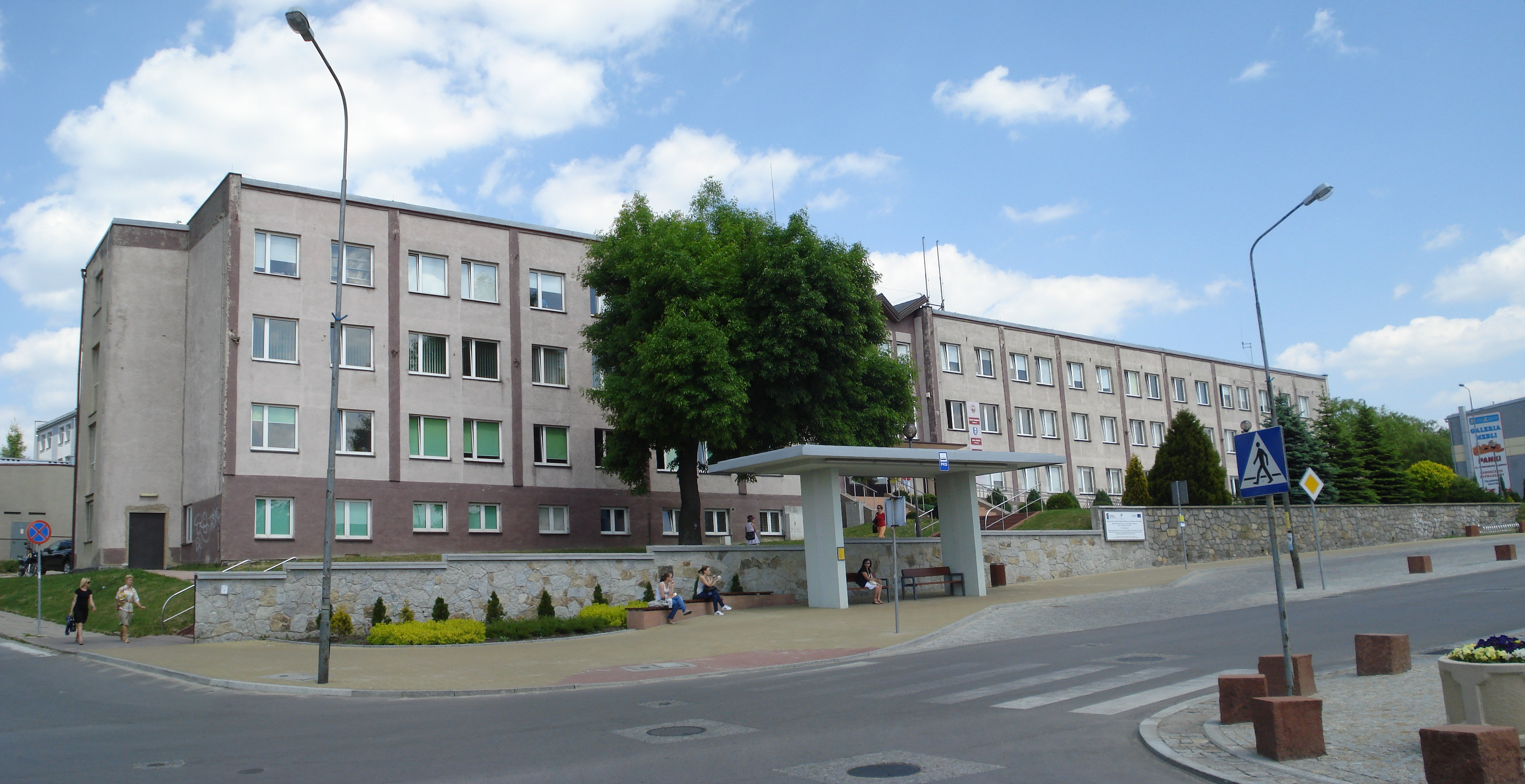 Powiat seat and revenue in Kłobuck, Poland